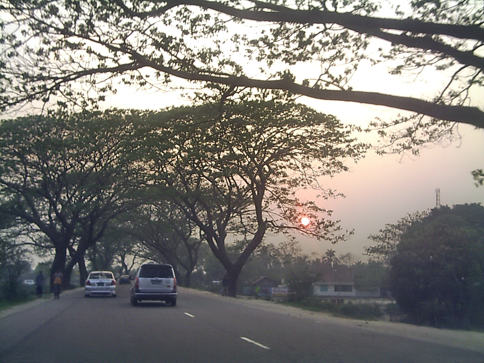 Sunset at Elliotganj, a journey on Comilla's highway at the dusk.